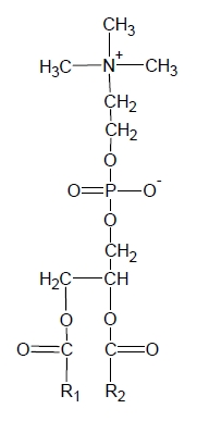 Structure formula of phosphatidylcholine